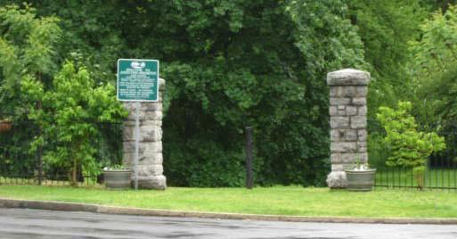 James Pass Arboretum in Syracuse, New York